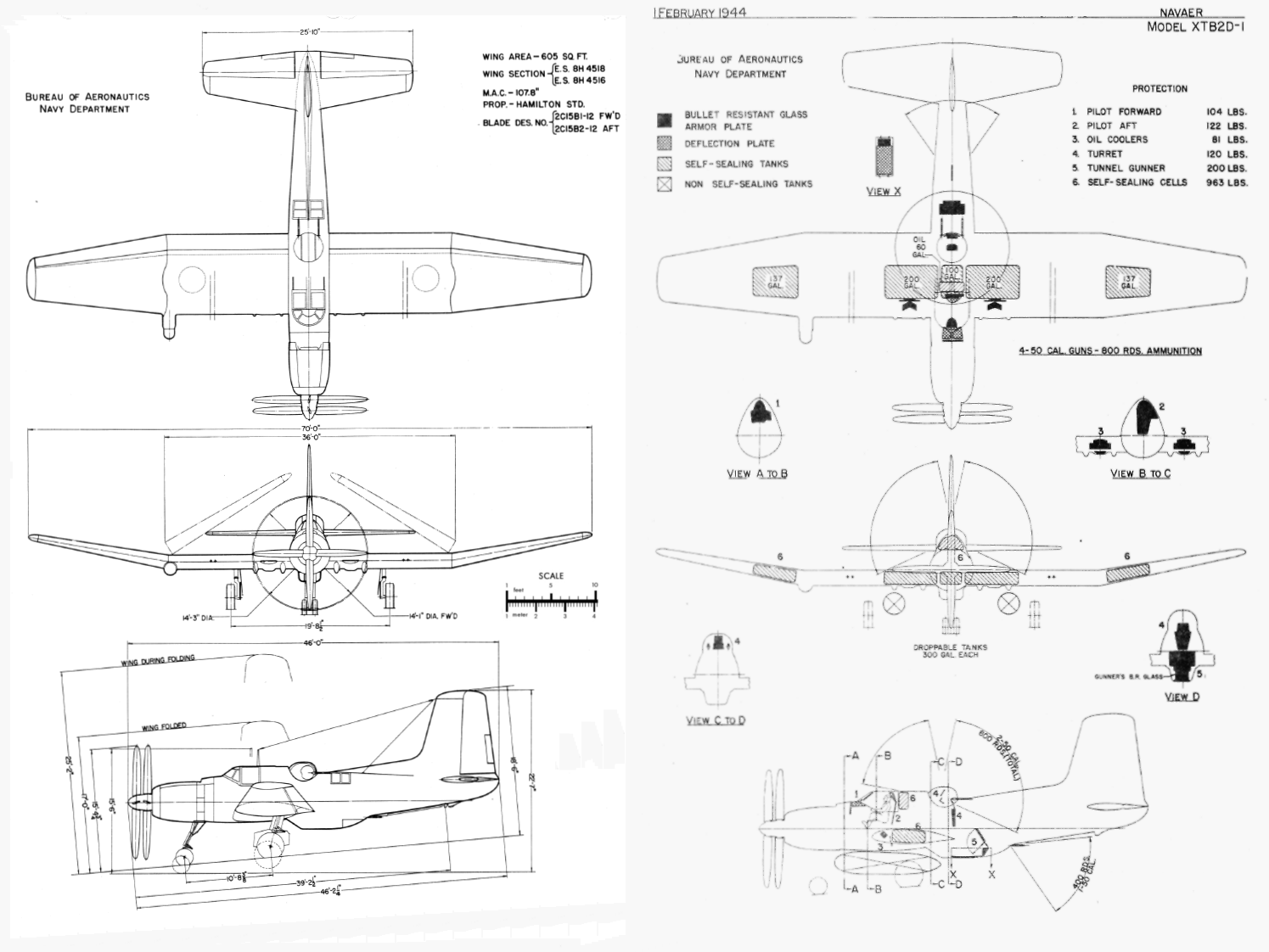 Line drawings for the Douglas XTB2D-1 Skypirate.